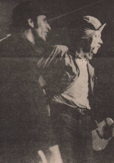 Michael Alaimo & Donald Sutherland perform skit in the FTA Show outside Fort Hood Army Base September 1971